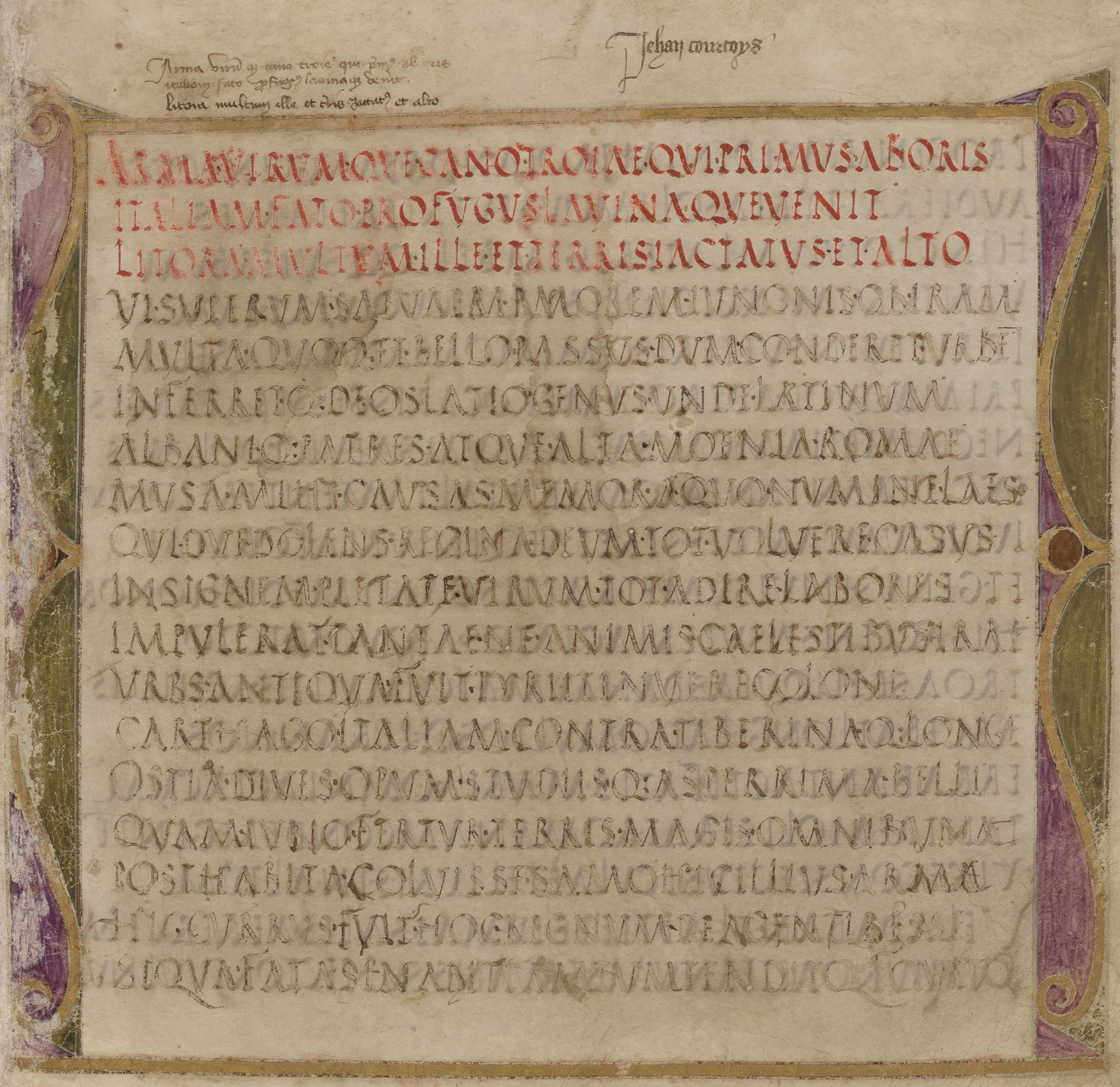 Folio 78r of the Roman Vergil